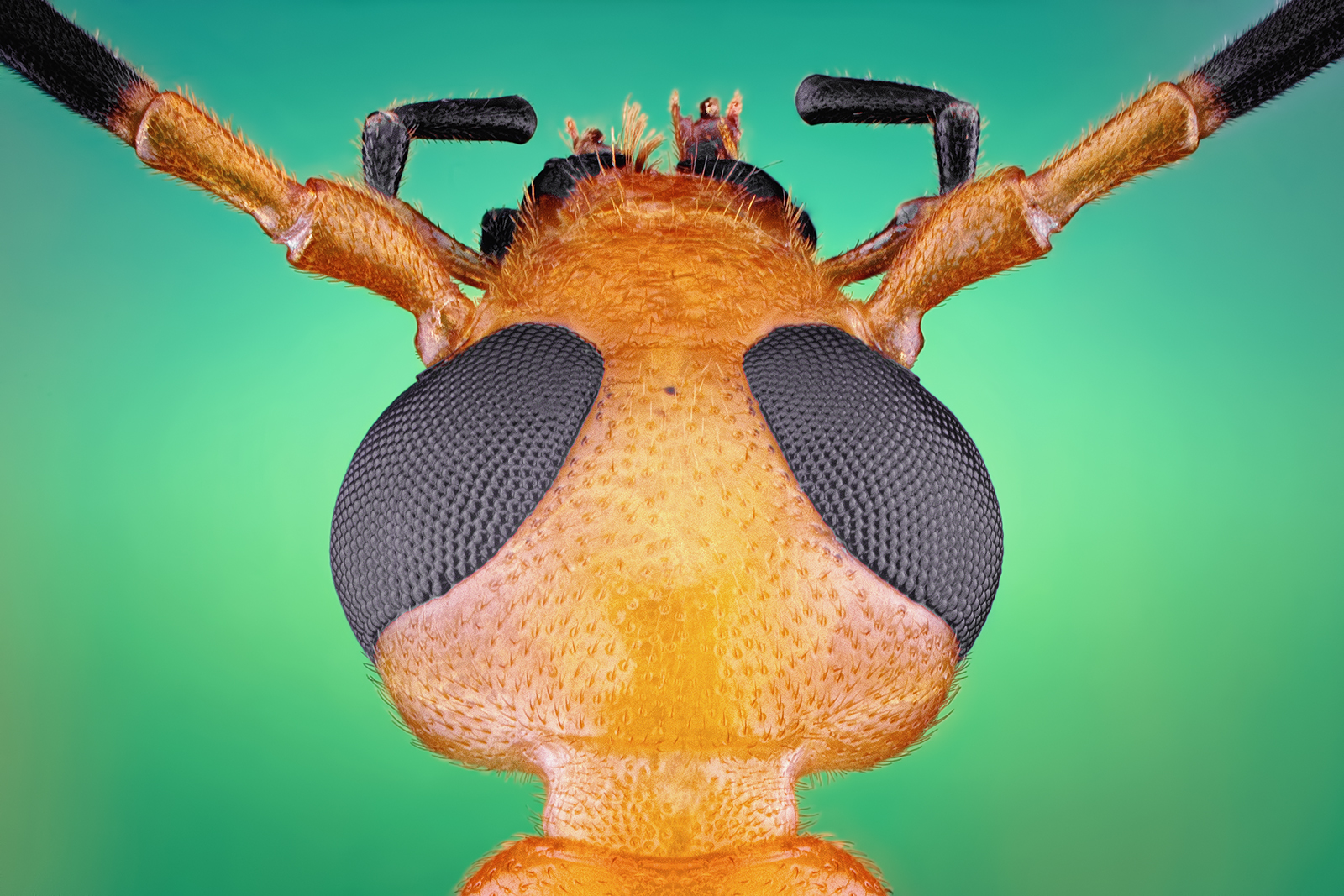 Equip : Nikon D90, Nikkor AF-D 50mm f1.8 (Reversed), Ext.Tube, Raynox DCR250, 3 pcs LED-Spotlight + Diffuser, Fotomate LP-01 Focusing Rail. Studio Focus Stacking : 184 frames @f5.6, 1.6s, ISO 100. Post-Process : Zerene Stacker PMax+DMax, Photoshop CS5.1.